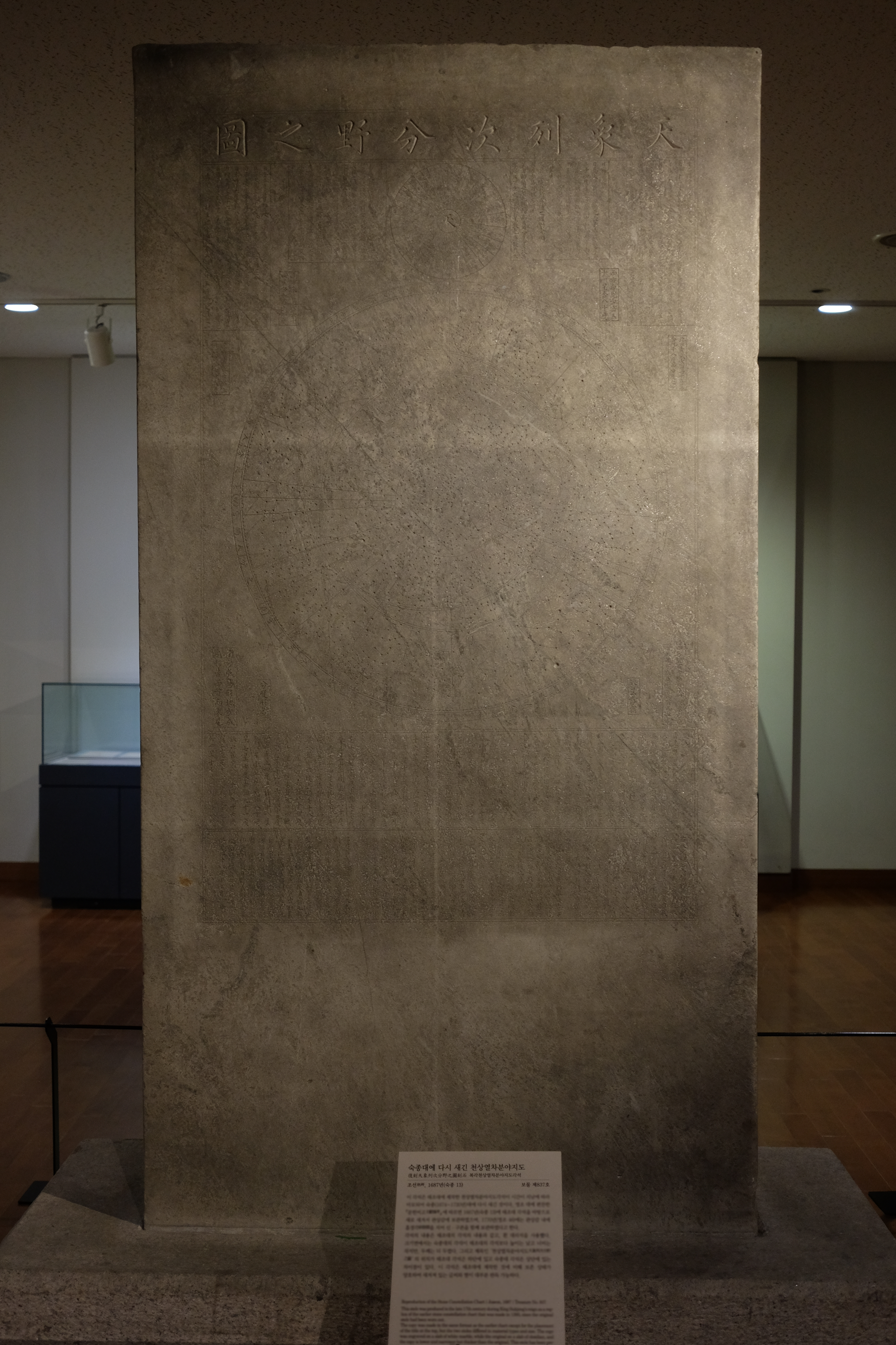 Cheonsang Yeolcha Bunyajido re-carved in 1687